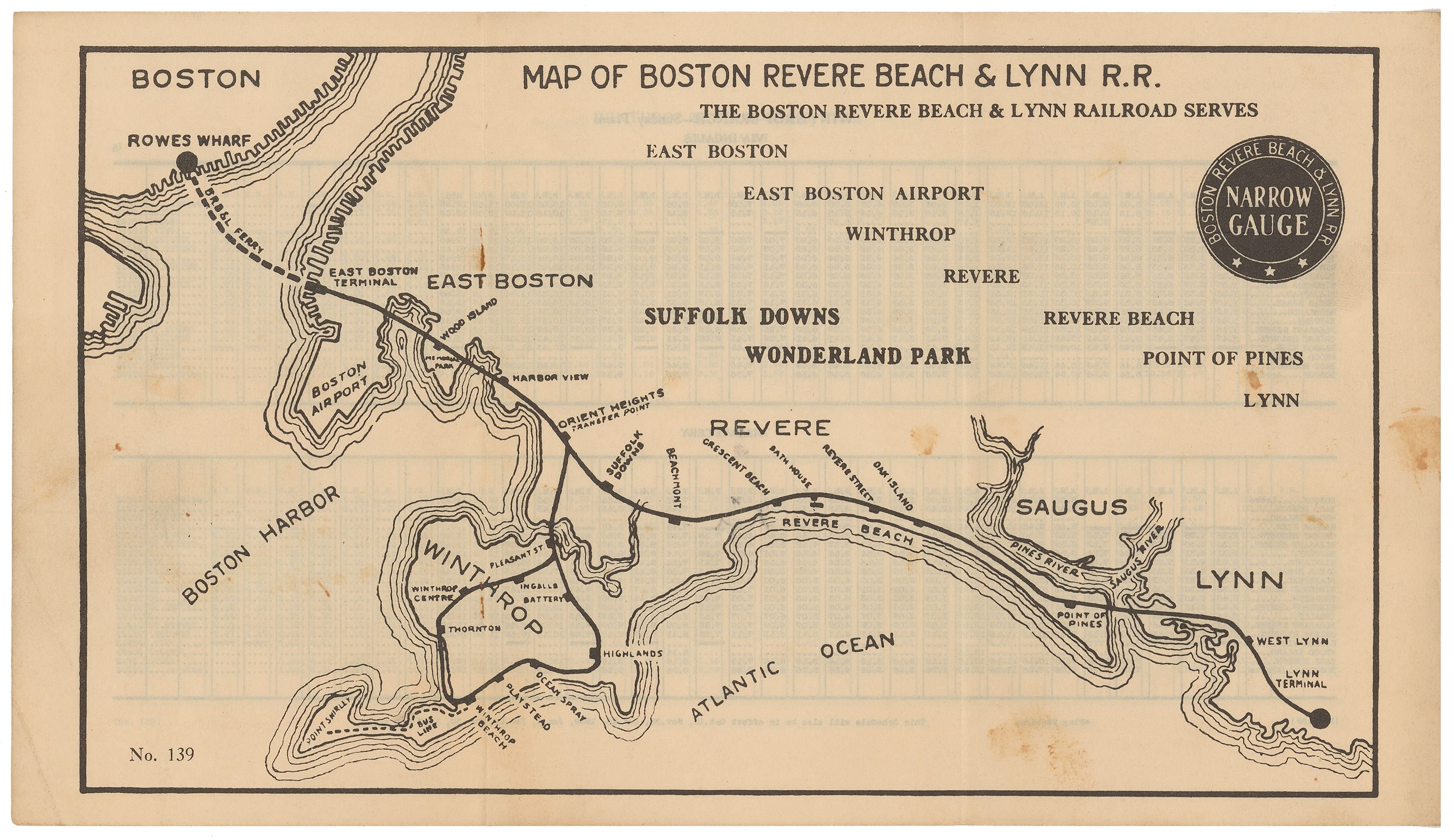 1939 map of the Boston, Revere Beach and Lynn Railroad on the reverse of a timetable